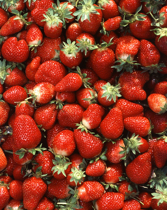 Chandler strawberries